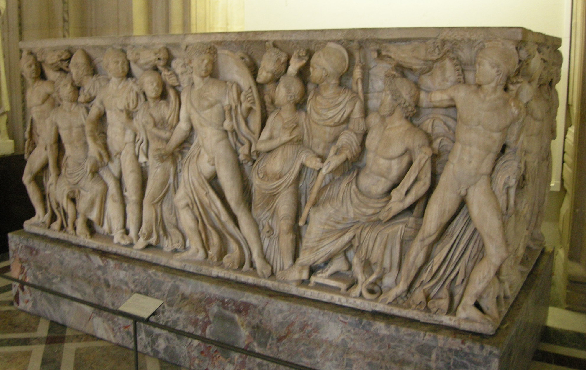 Achilles at the court of King Lycomedes, detail. Marble, Greek artwork, ca. 240 CE. From Rome (?).